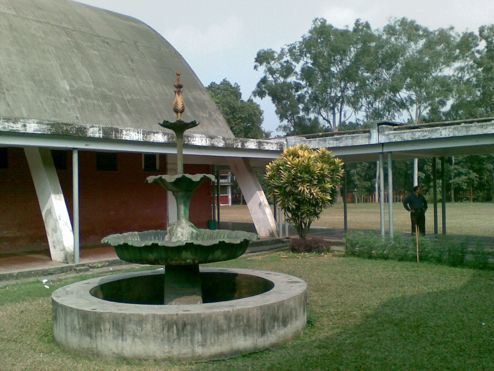 Location: Dhaka University